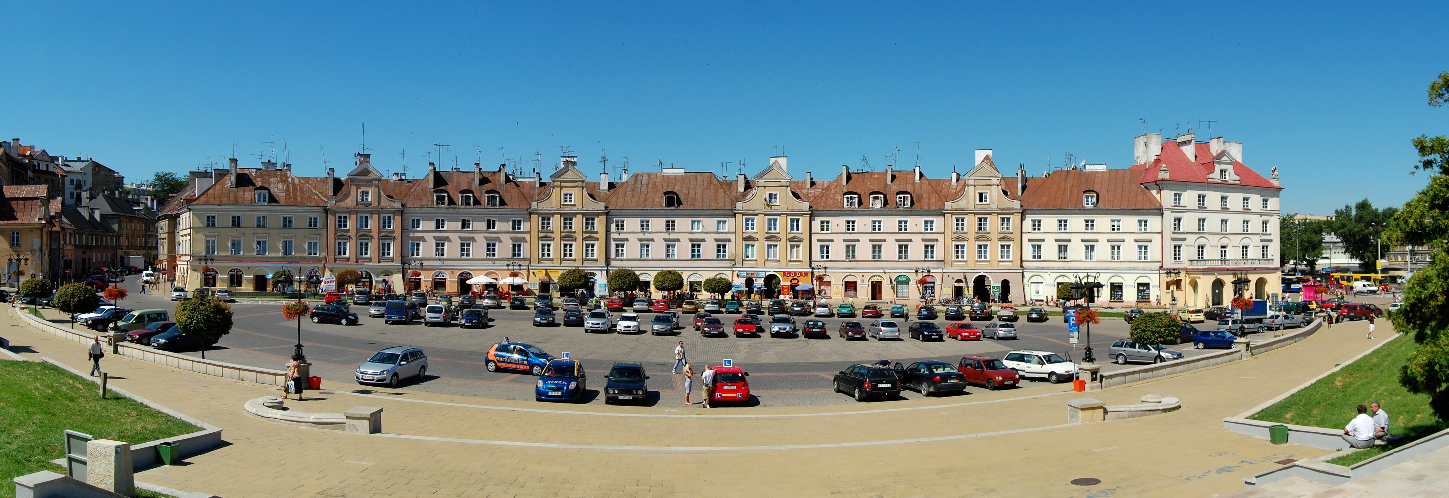 Castle Square, Lublin, Poland.